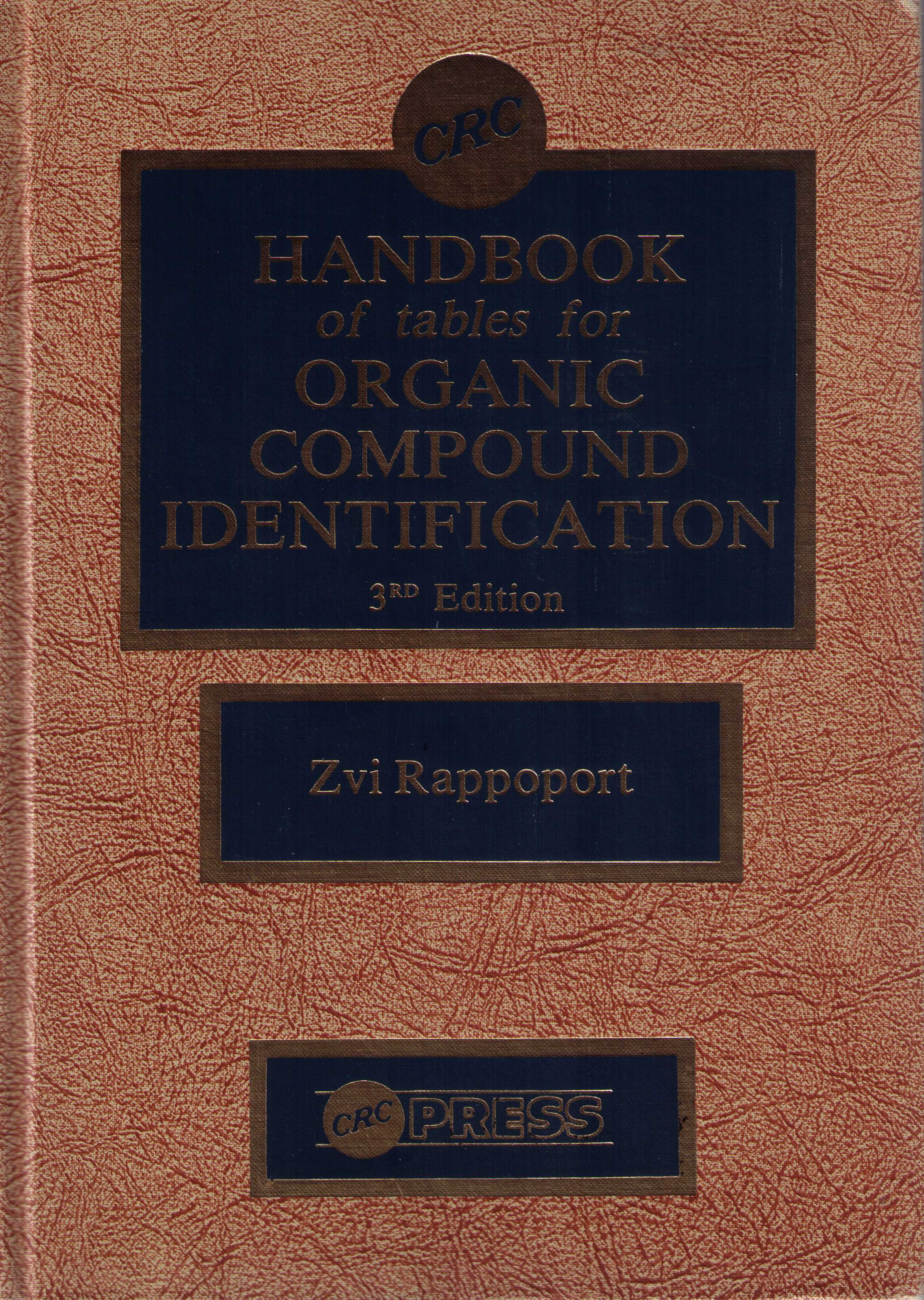 CRC Handbook of Tables for Organic Compound Identification (cover front page)